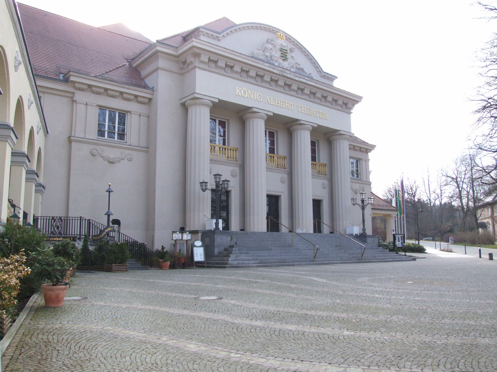 Bad Elster, Saxony, Germany in April 2008. Albert Theatre